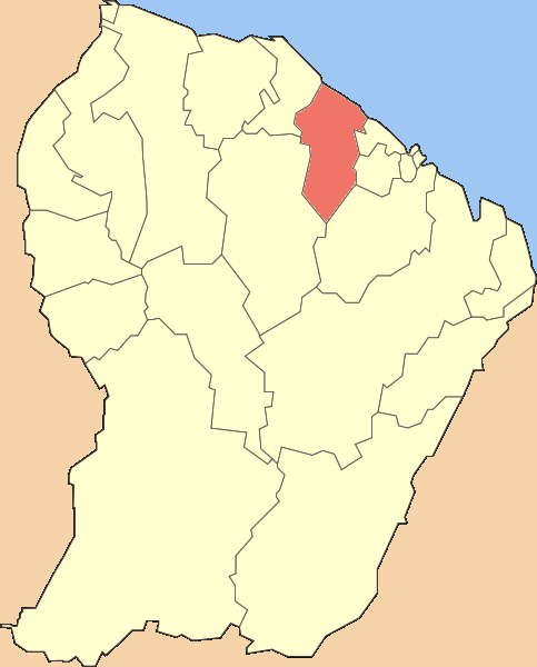 Made map myself.